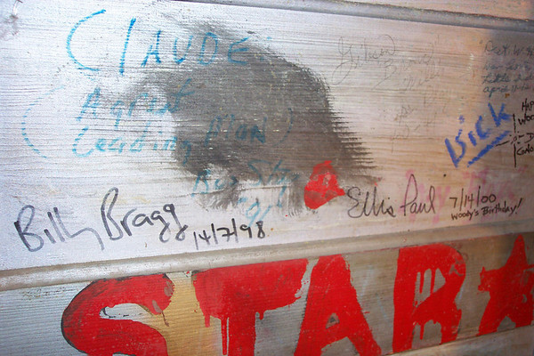 Inside the "green room" of the Crystal Theater, Okemah, Oklahoma